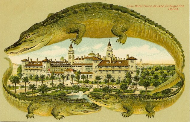 Postcard, circa 1909, of Ponce de Leon Hotel in St. Augustine, Florida, identified in caption on picture side of postcard as "Hotel Ponce de Leon, St. Augustine, Florida"; store Web page states: "Original, circa 1909 postcard"